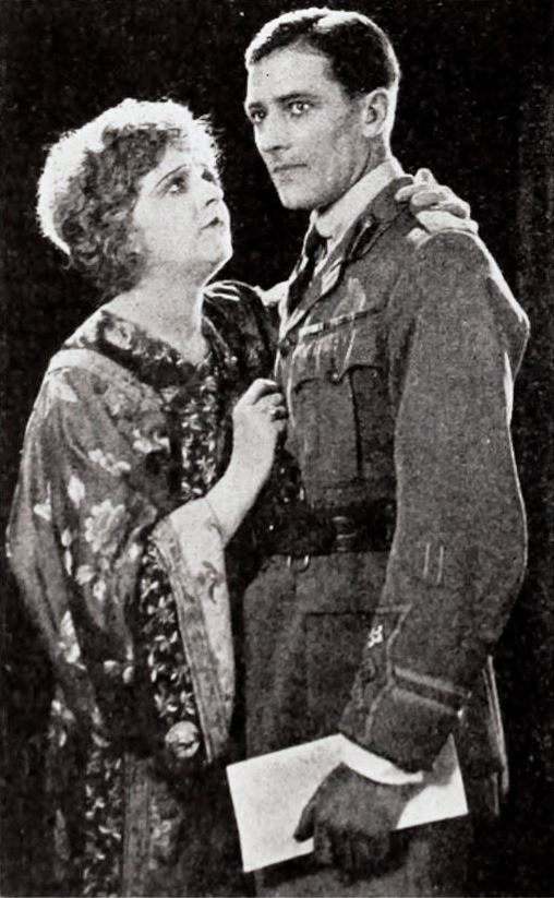 Still from the American drama film A Wonderful Wife (1922) with Miss DuPont, on page 70 of the April 29, 1922 Exhibitors Herald.